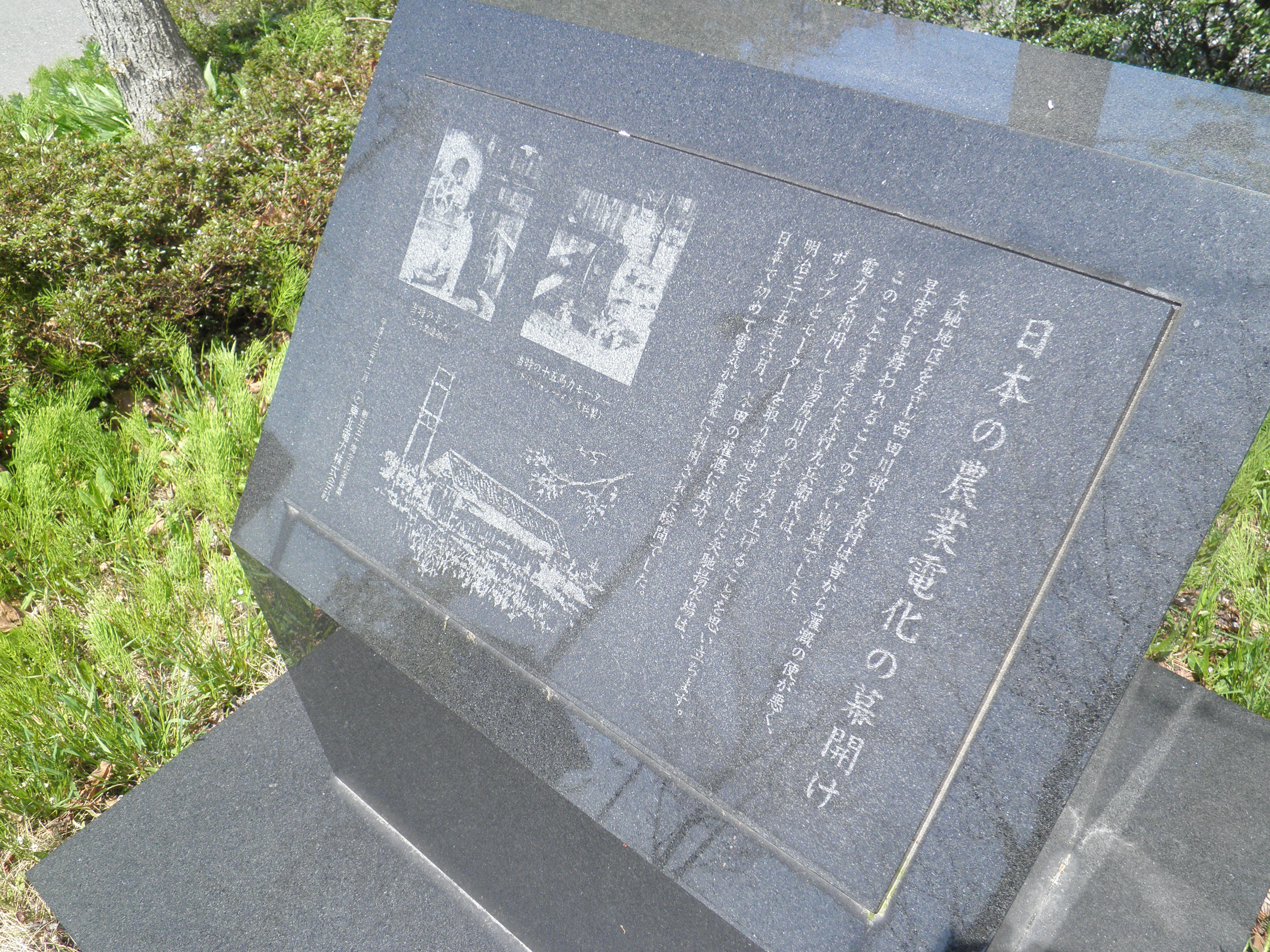 Kuhe Kimura's stone monument presented by Tohoku Electric Power Co., Inc.